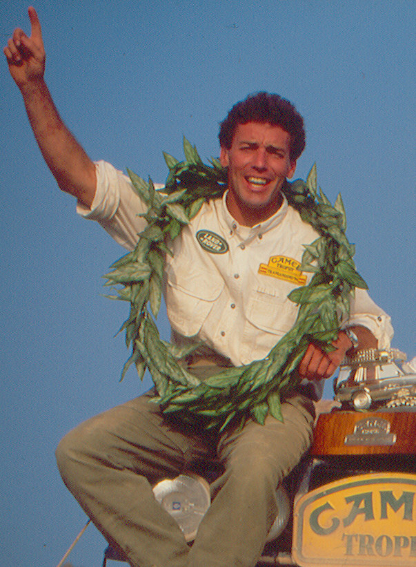 The picture shows the celebrations of Jorge Corella after winning the 1994 edition of the Camel Trophy, becoming the first and only Spanish team to win this competition.